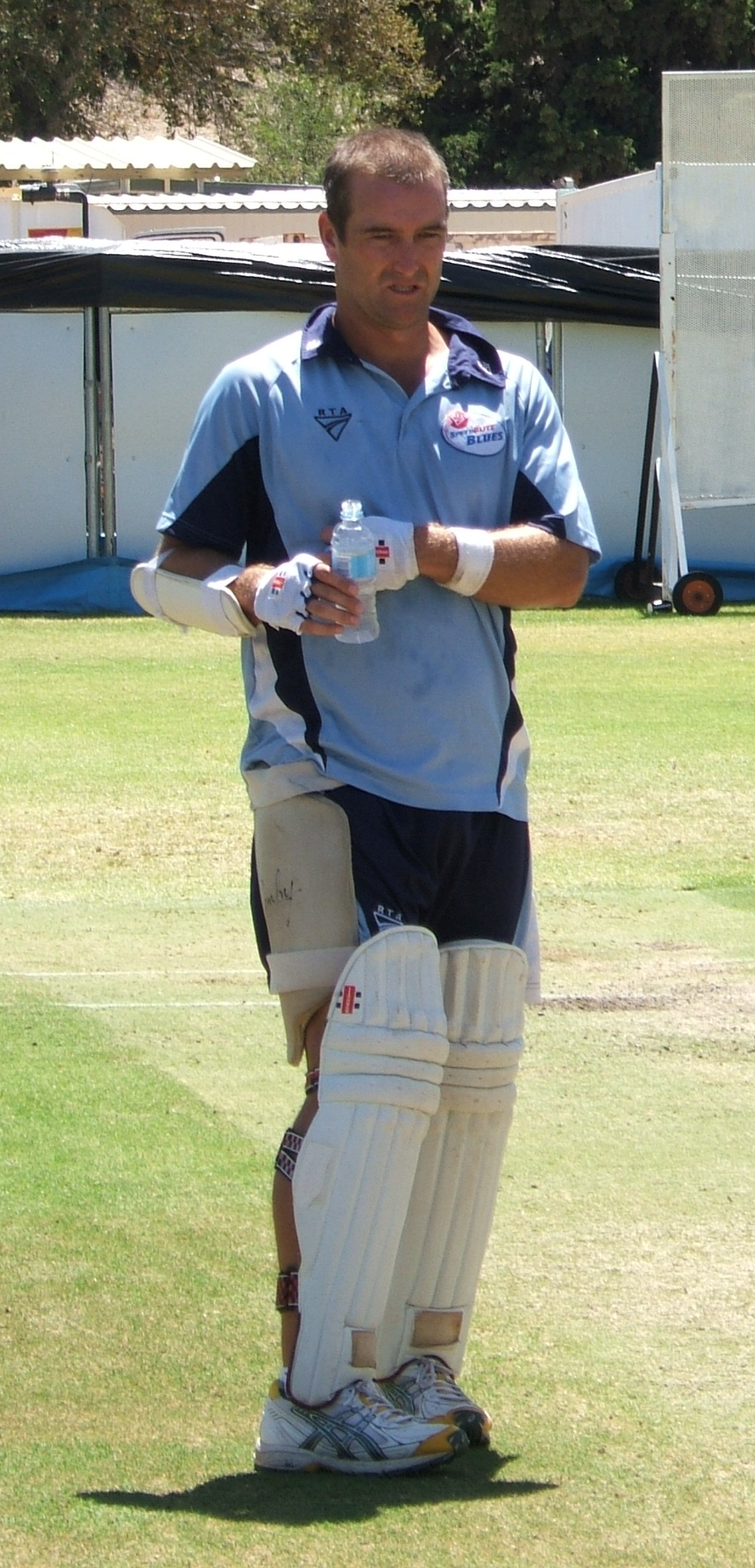 Named person engaging in named action at Adelaide Oval nets/training ground